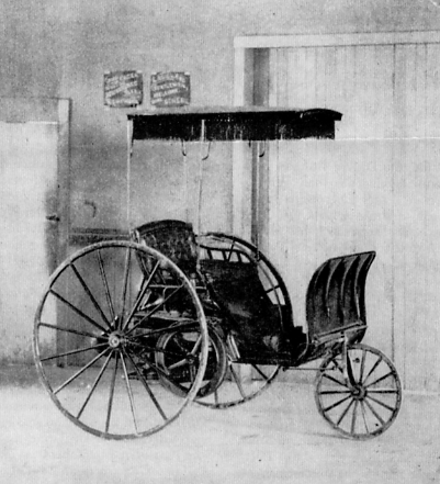 Buckeye Gasoline Buggy. First gasoline American automobile.